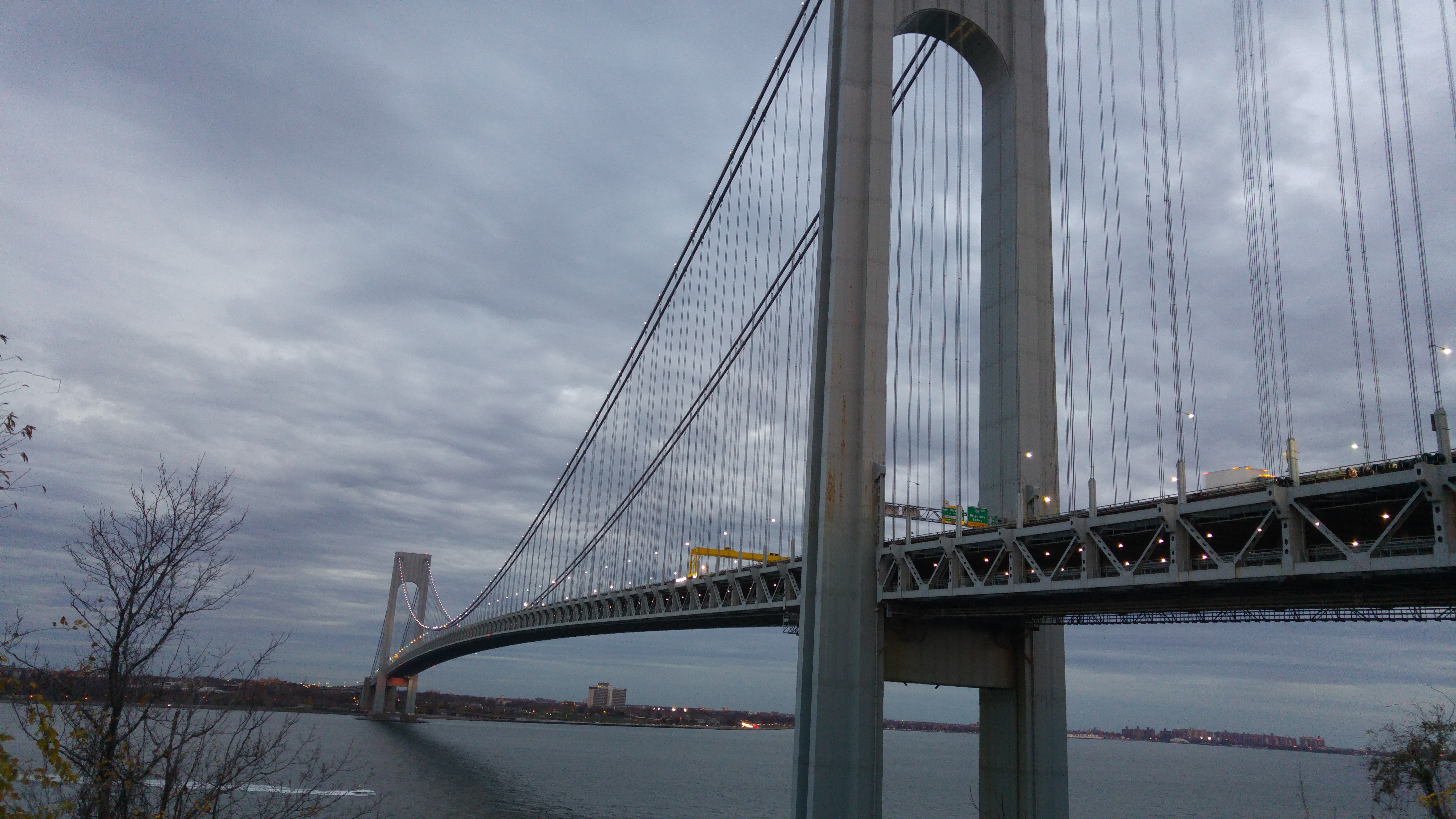 Verrazano Narrows Bridge connecting Brooklyn with Staten Island. Image captured from Staten Island.